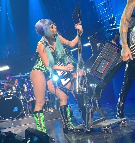 Lady Gaga performing "The Fame" during her Las Vegas residency, Enigma